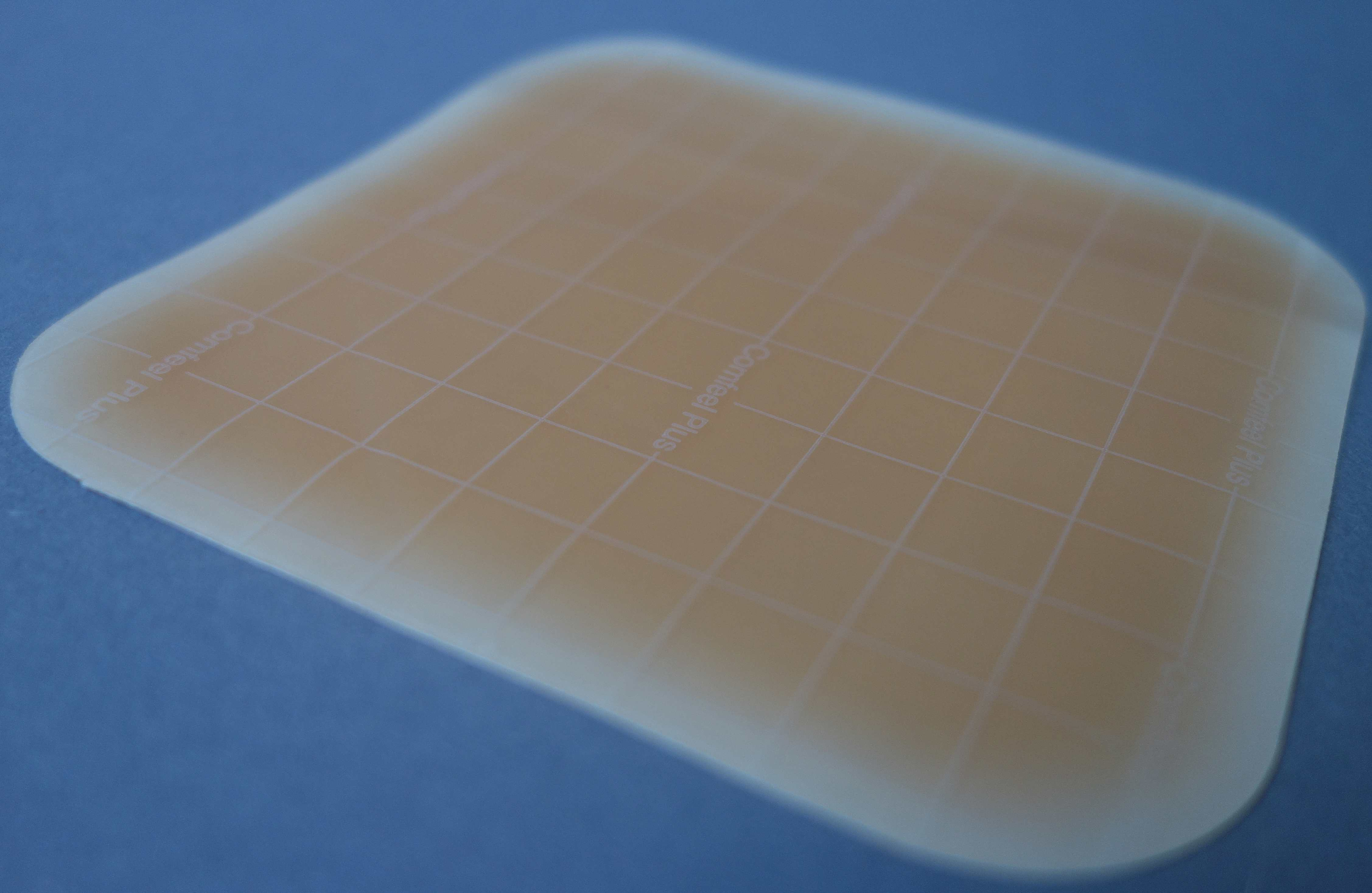 Ulcer dressing